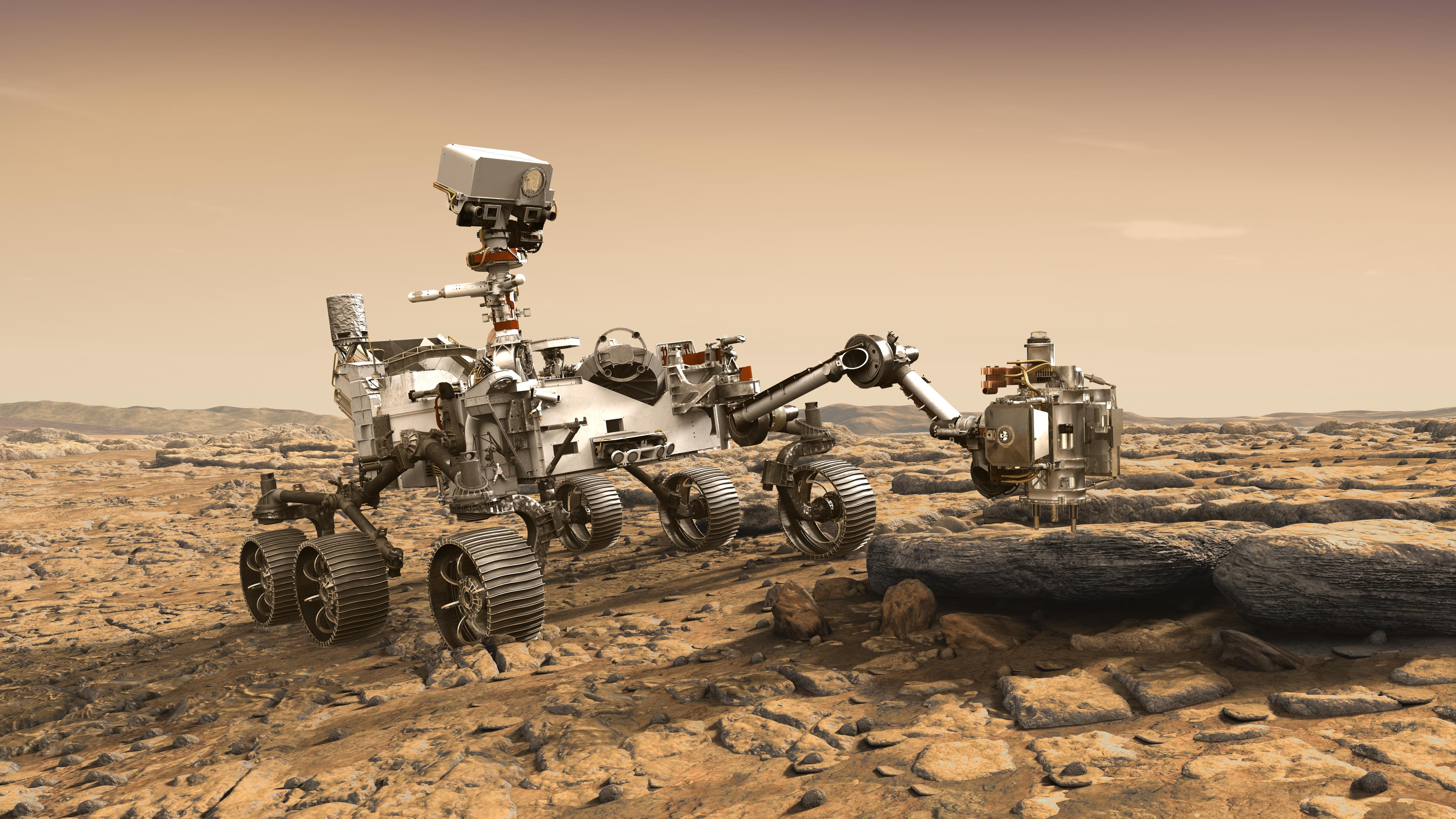 PIA22105: NASA's Mars 2020 Rover Artist's Concept #2 This artist's rendition depicts NASA's Mars 2020 rover studying a Mars rock outrcrop. The mission will not only seek out and study an area likely to have been habitable in the distant past, but it will take the next, bold step in robotic exploration of the Red Planet by seeking signs of past microbial life itself. Mars 2020 will use powerful instruments to investigate rocks on Mars down to the microscopic scale of variations in texture and composition. It will also acquire and store samples of the most promising rocks and soils that it encounters, and set them aside on the surface of Mars. A future mission could potentially return these samples to Earth. Mars 2020 is targeted for launch in July/August 2020 aboard an Atlas V-541 rocket from Space Launch Complex 41 at Cape Canaveral Air Force Station in Florida. NASA's Jet Propulsion Laboratory builds and manages the Mars 2020 rover for the NASA Science Mission Directorate at the agency's headquarters in Washington. For more information about the mission, go to Photojournal Note: Also available is the full resolution TIFF file PIA22105_full.tif. This file may be too large to view from a browser; it can be downloaded onto your desktop by right-clicking on the previous link and viewed with image viewing software.